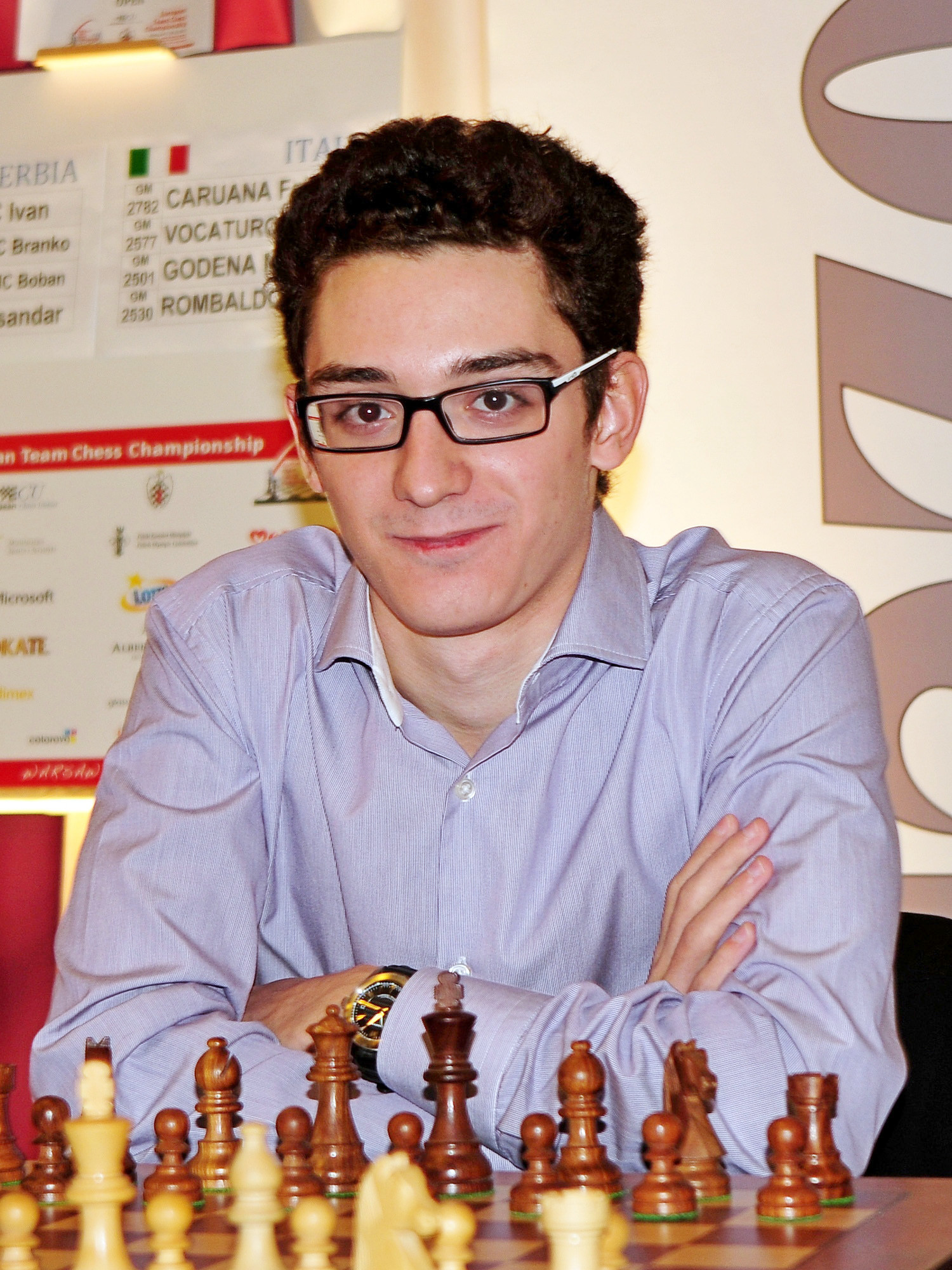 GM Fabiano Caruana, European Chess Team Championship Warsaw 2013